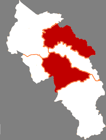 Location of Jingyuan county in Baiyin city, China